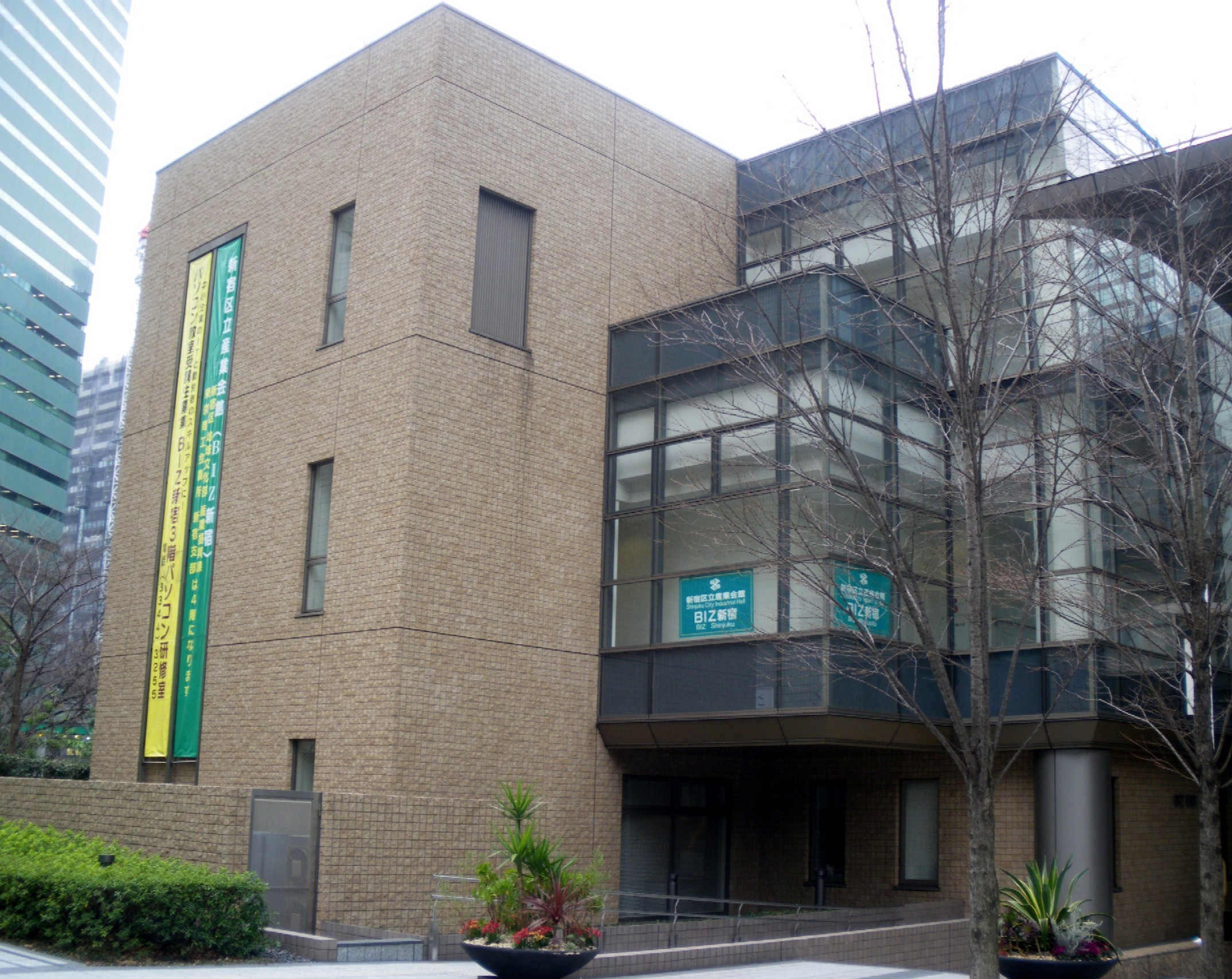 A photo of "BIZ SHINJUKU" (public institution for promotion of small and medium enterprises in Shinjuku-ku.) It is located next to Shinjuku Oak Tower, Nishishinjuku, Shinjuku-ku, Tokyo, Japan.